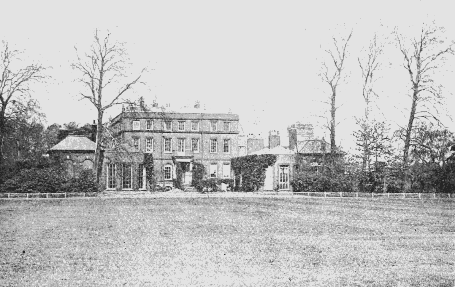 Bushy house east front